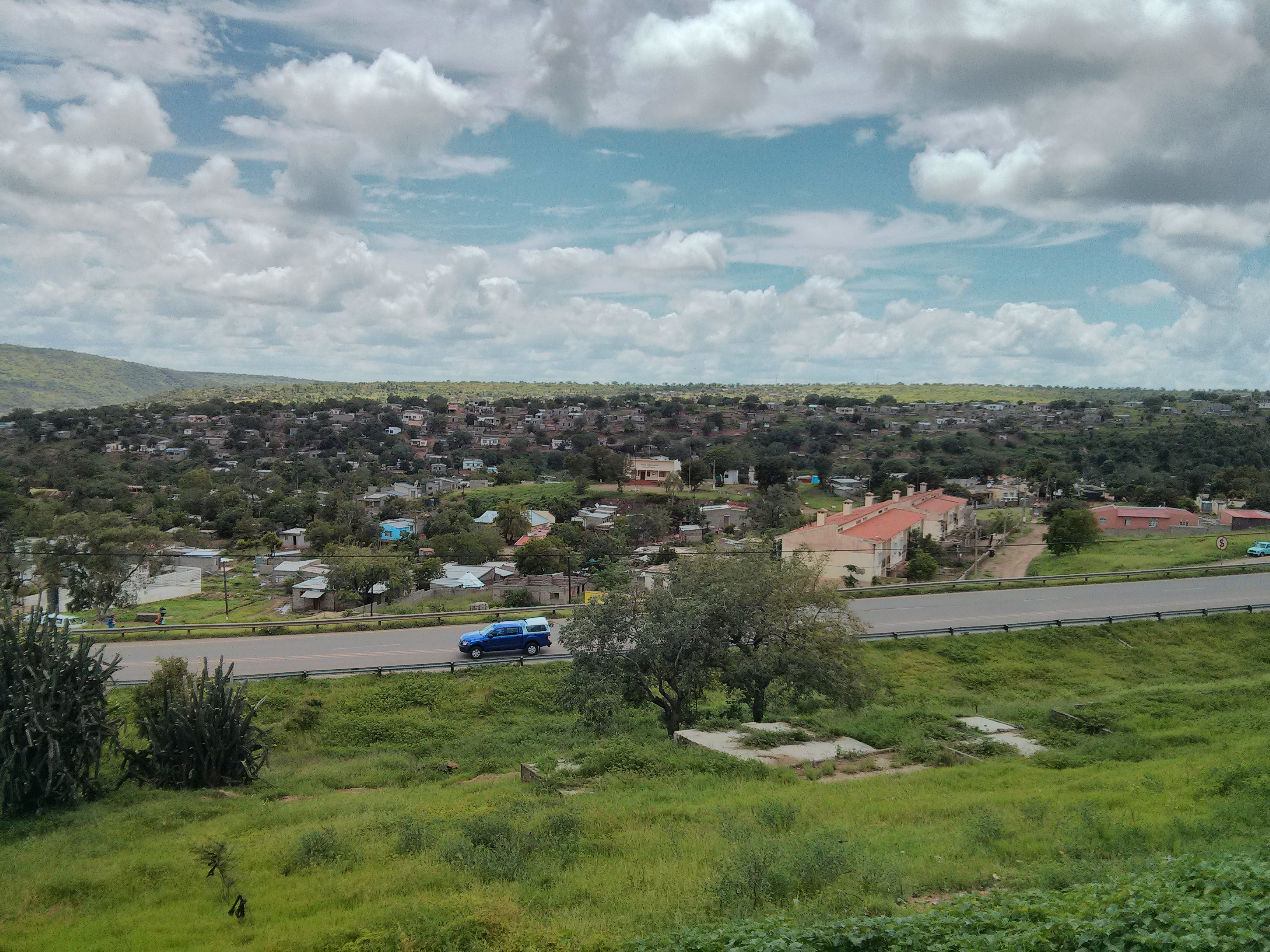 View over the village of Ressano García, Mozambique